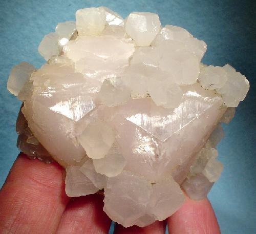 Calcite, Calcite (Var.: Manganoan Calcite) Locality: Nikolaevskiy Mine, Dal'negorsk (Dalnegorsk; Tetyukhe; Tjetjuche; Tetjuche), Primorskiy Kray, Far-Eastern Region, Russia (Locality at ) Size: 6.7 x 5.5 x 4.7 cm. A SUPERB and AESTHETIC Dalnegorsk specimen of large, very glassy, pastel-pink manganoan calcite crystals attractively overgrown with smaller, glassy, 2nd-generation, colorless calcite rhombs. These Nikolaevskiy Mine calcites came out in the early 1990s, when Dalnegorsk was still known as Tetjuche-Pristan. Ex. W. Leithauser Collection.